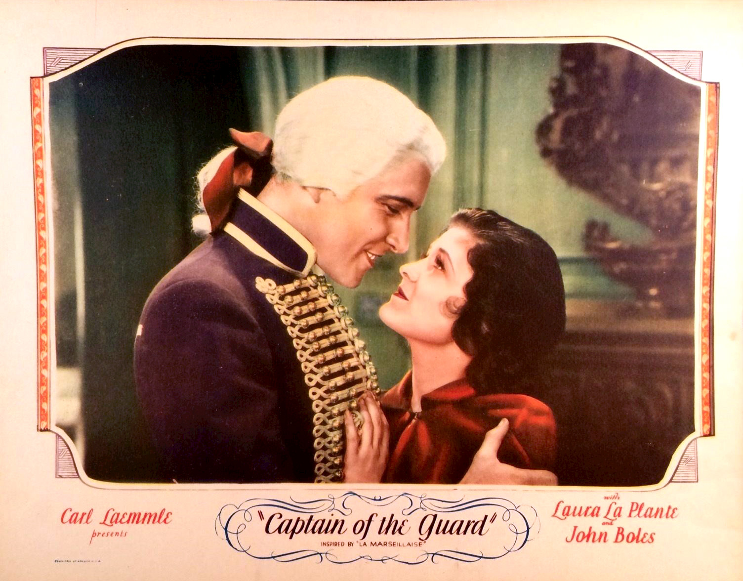 Lobby card for the 1930 film Captain of the Guard. There are no copyright marks on the card. At lower left is Country of origin USA.